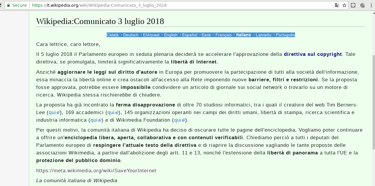 Italian Wikipedia blocked because of protests on EU directive on copyright